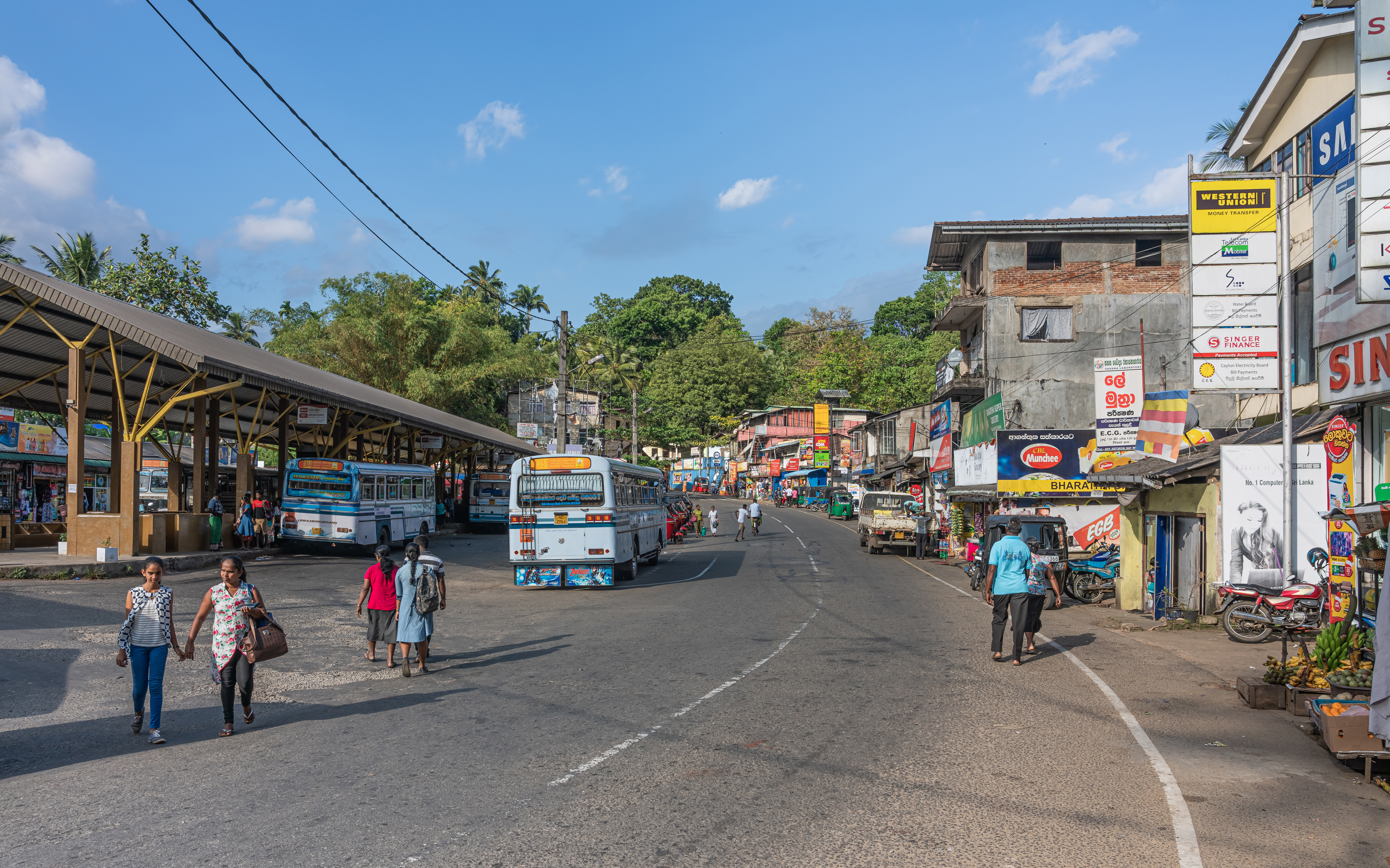 Bus station and main street in Deniyaya, Sri Lanka